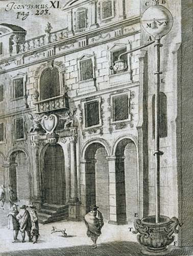 This is a picture of an experiment by Gasparo Berti from Technica curiosa, sive, Mirabilia artis by Gaspar Schott, published in 1664.